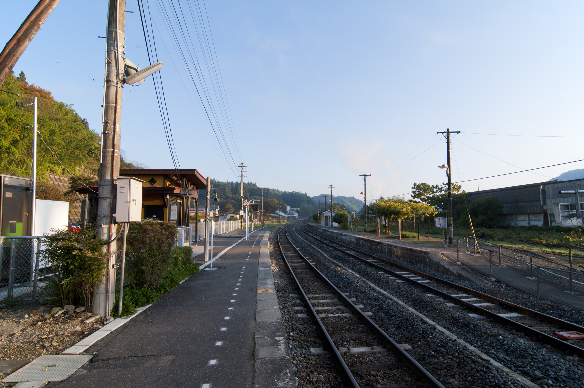 JR East Ofunato Line Rikuchu-Matsukawa Station platforms